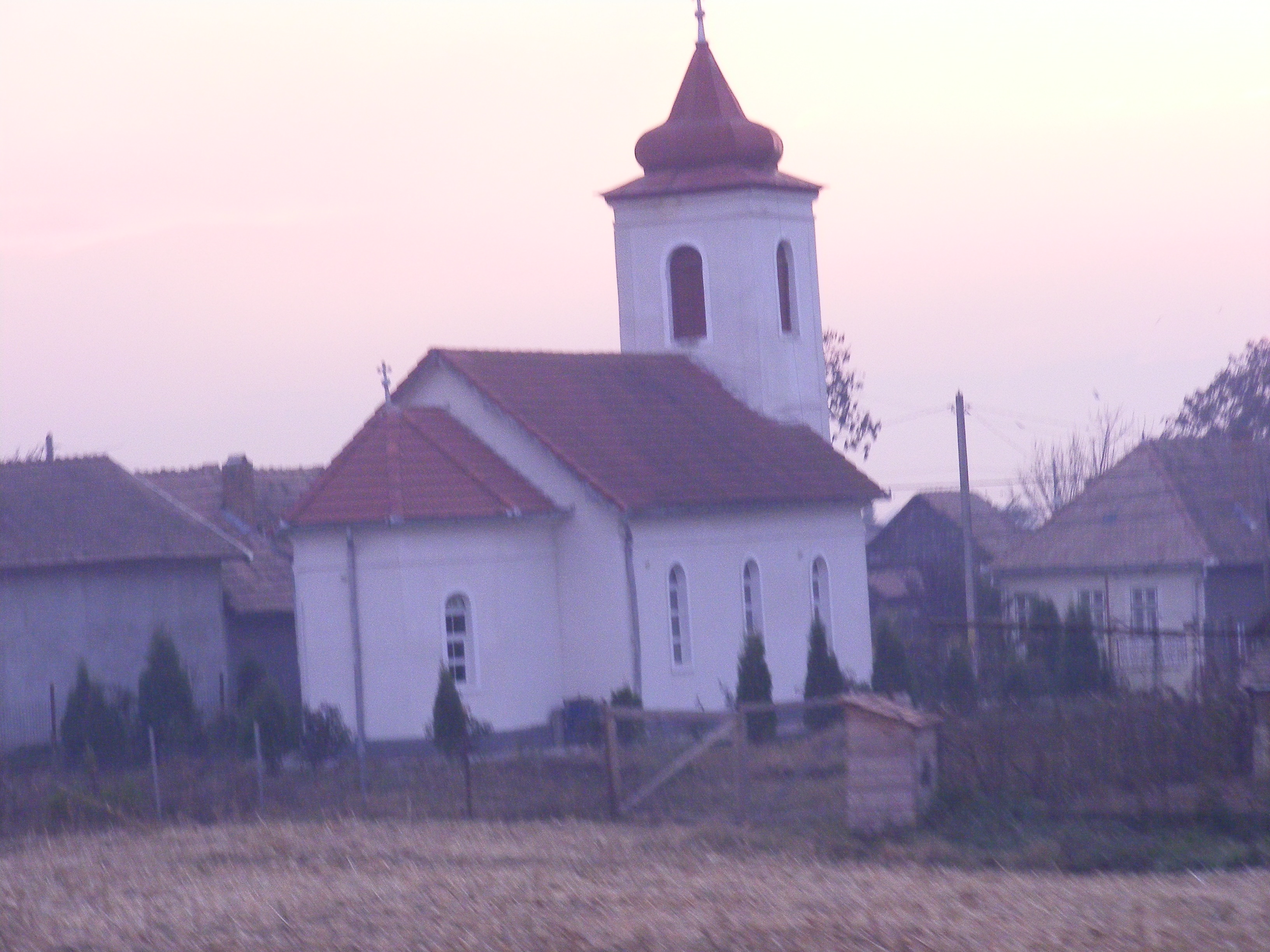 Kerelőszentpál (Sânpaul) ortodoxian church